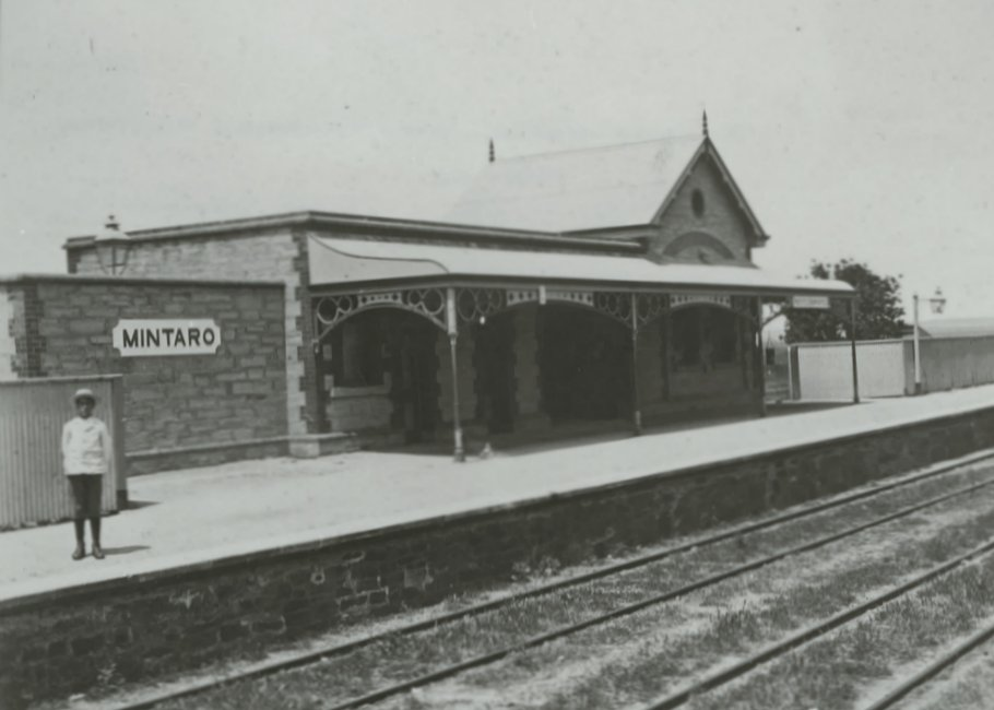 Railway station at Mintaro, c. 1901. Black and white photograph; 16.5 cm x 20.8 cm. Creator unknown, but part of the Mintaro Collection [B 43378].